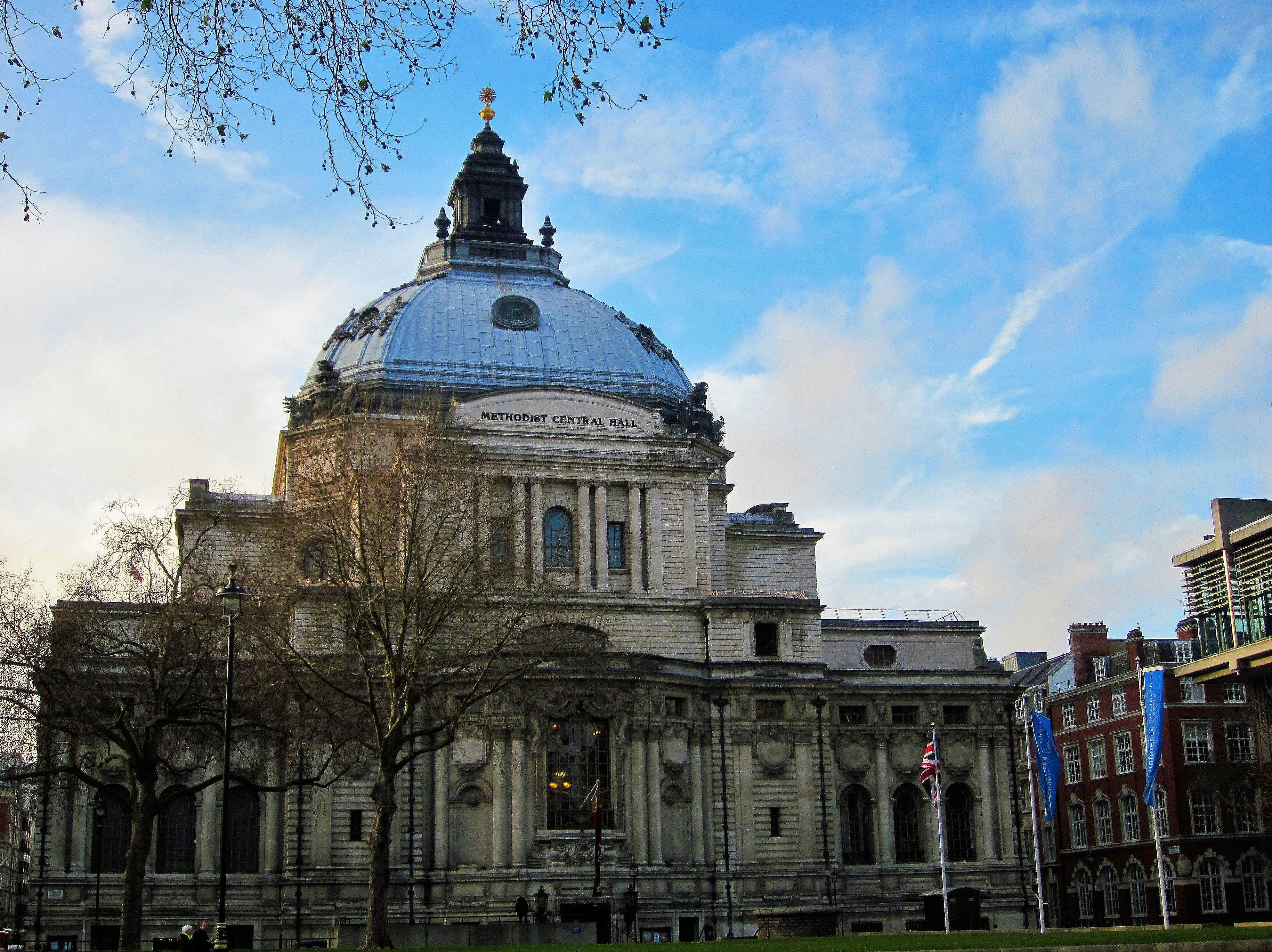 Methodist Central Hall, London